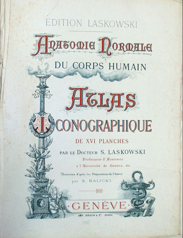 S. Laskowski's Atlas of anatomy, title page